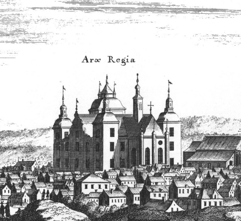 Detail of an engraving from Suecia antiqua et hodierna showing the Gävle Palace.